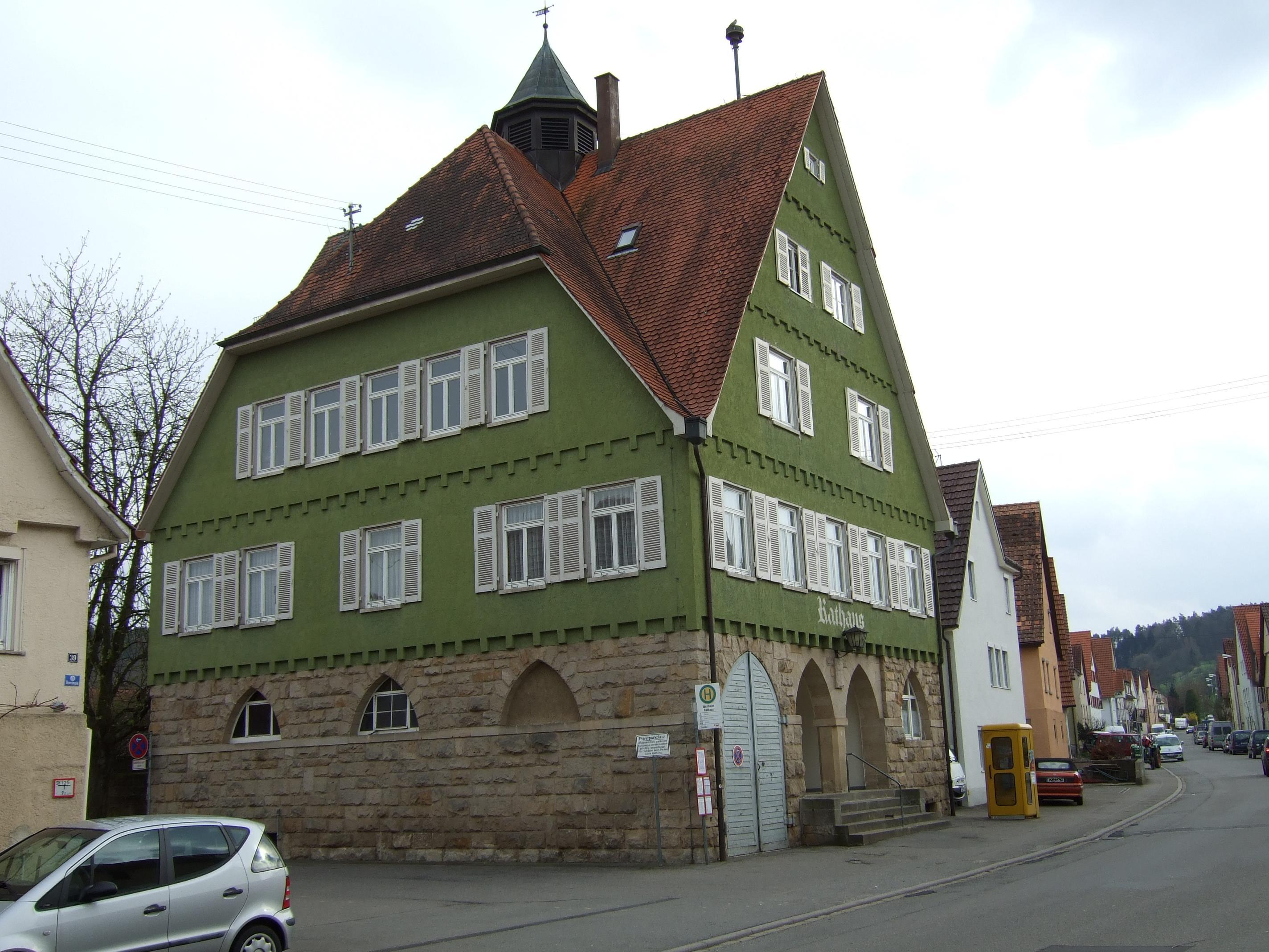 city hall Tübingen Weilheim